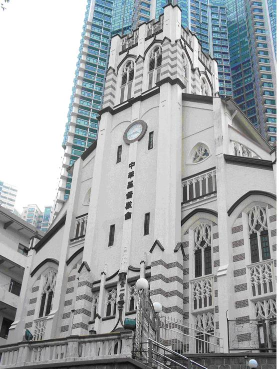 Hop Yat Church, Hong Kong.